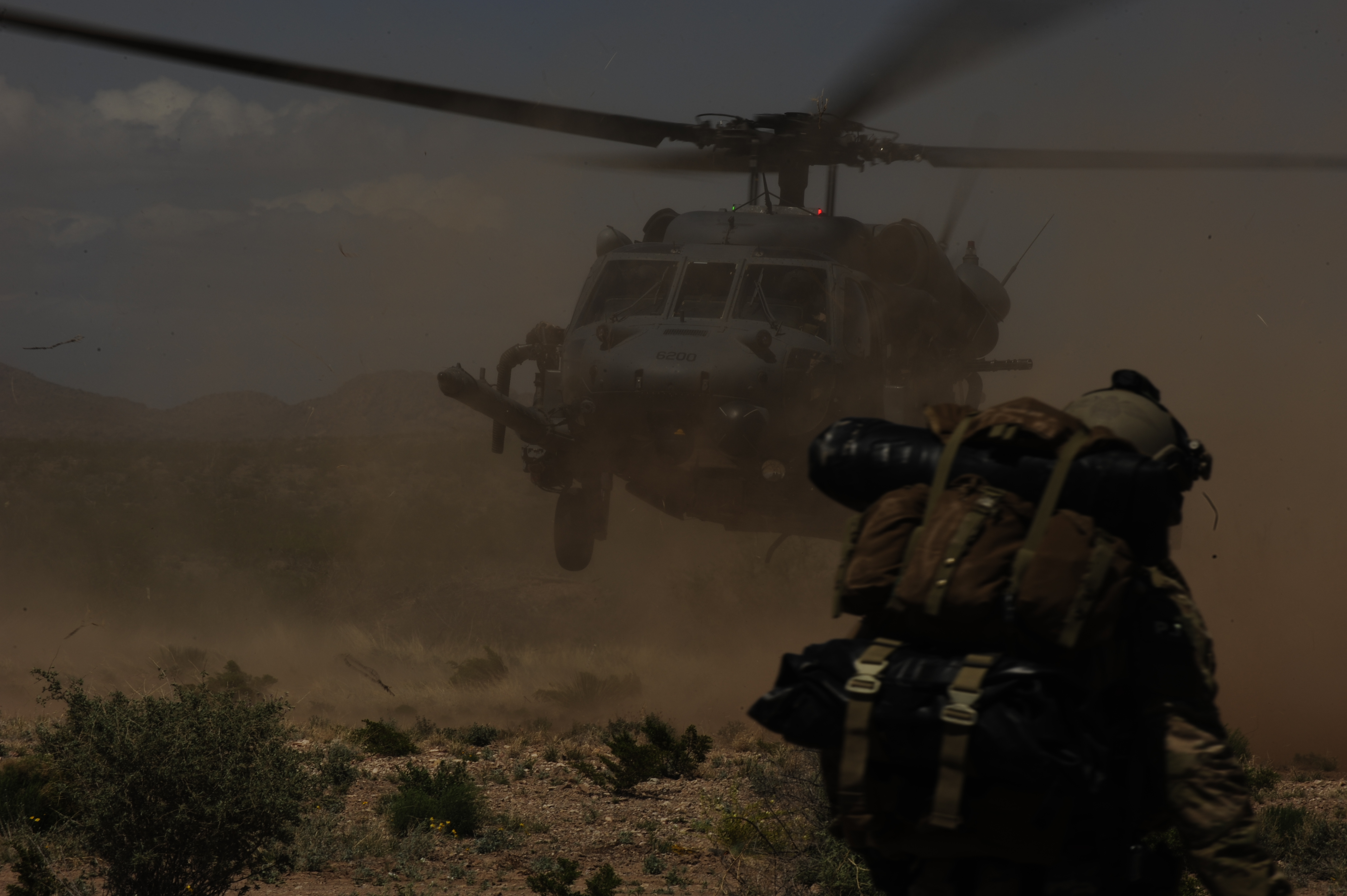 A U.S. Air Force HH-60 Pave Hawk helicopter assigned to the 41st Rescue Squadron (RQS) out of Moody Air Force Base (AFB), Ga., lands to pick up pararescuemen with the 38th RQS out of Moody AFB and a mock survivor during an Angel Thunder 2010 scenario at Playas Training and Research Center, N.M., April 21, 2010. Angel Thunder, an Air Combat Command-sponsored exercise, is the largest personnel recovery/combat search and rescue exercise to date and combines Department of Defense (DoD) and non-DoD assets. (U.S. Air Force photo by Staff Sgt. Joshua L. DeMotts/Released)